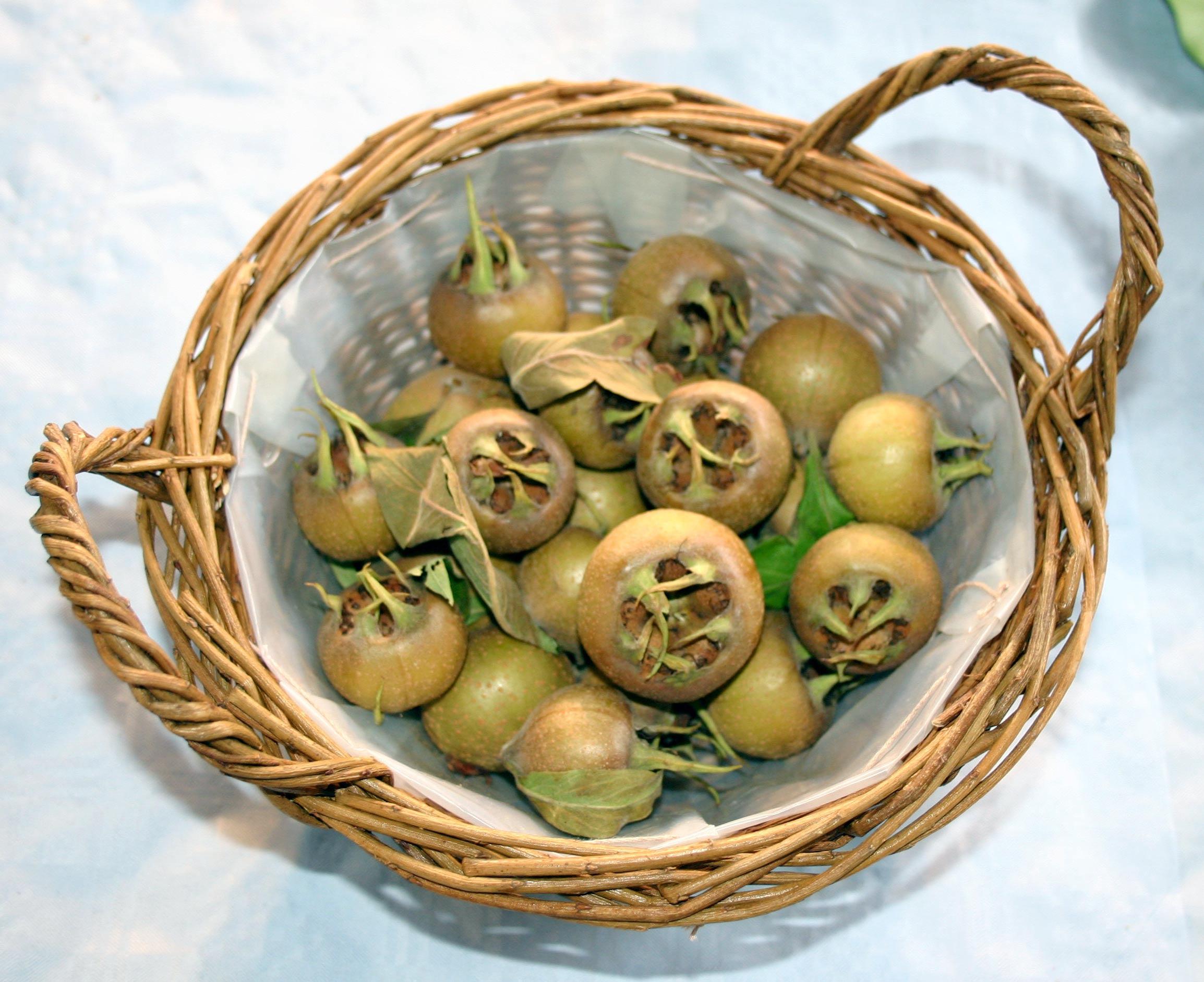 Common Medlar